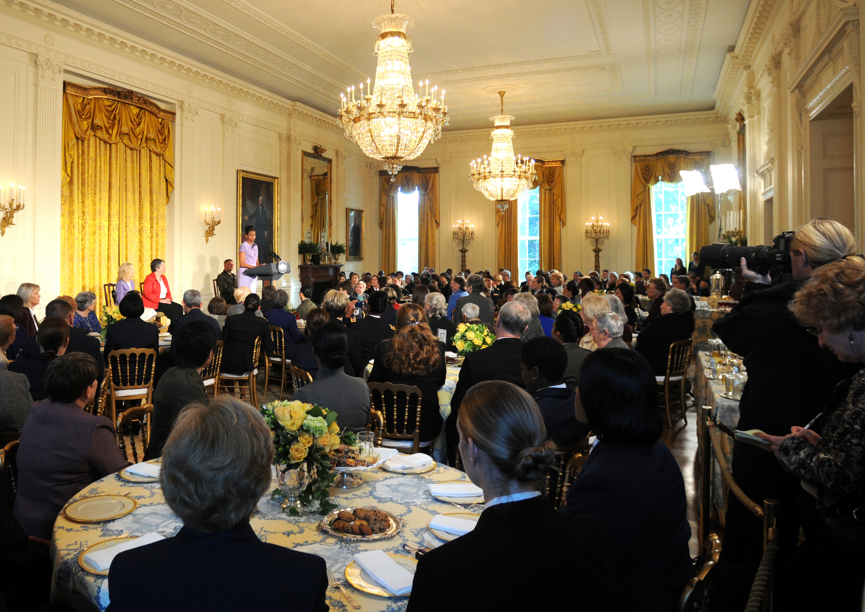 First Lady Michelle Obama addresses guests of the Nov. 18, 2009, Women in the Military Tea ceremony which celebrated all women who have served, or are serving in the U.S. military. See more at First lady honors military women, vets